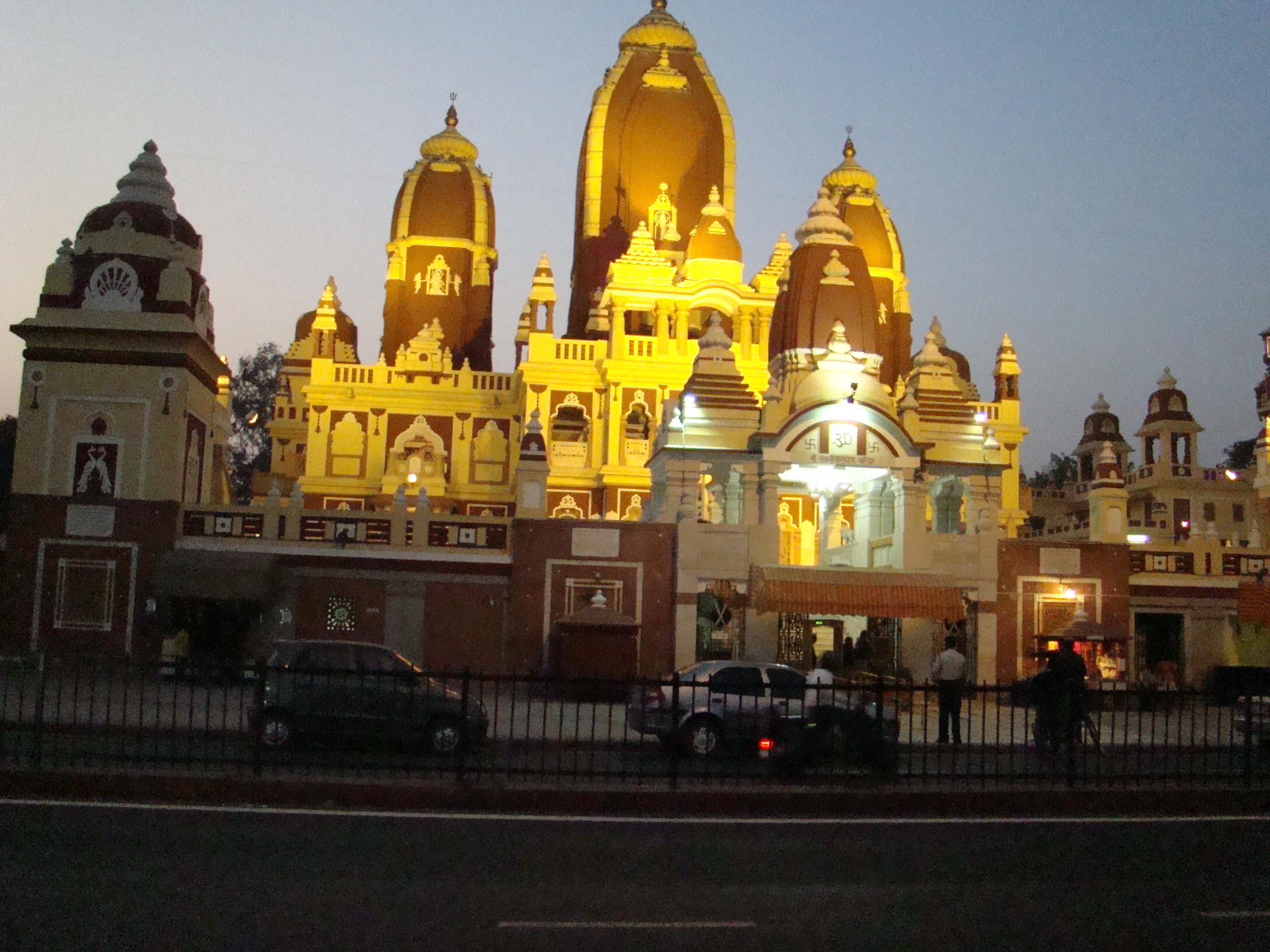 Lakshmi Narayan (Vishnu) temple, in Delhi (India)